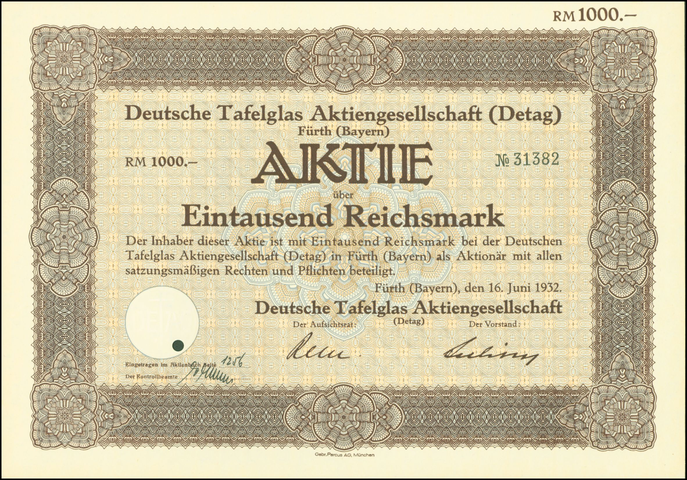 Share of the Deutsche Tafelglas AG, issued 16. June 1932